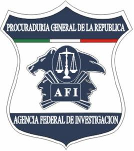 Shield of the Mexican Agencia Federal de Investigación (AFI).